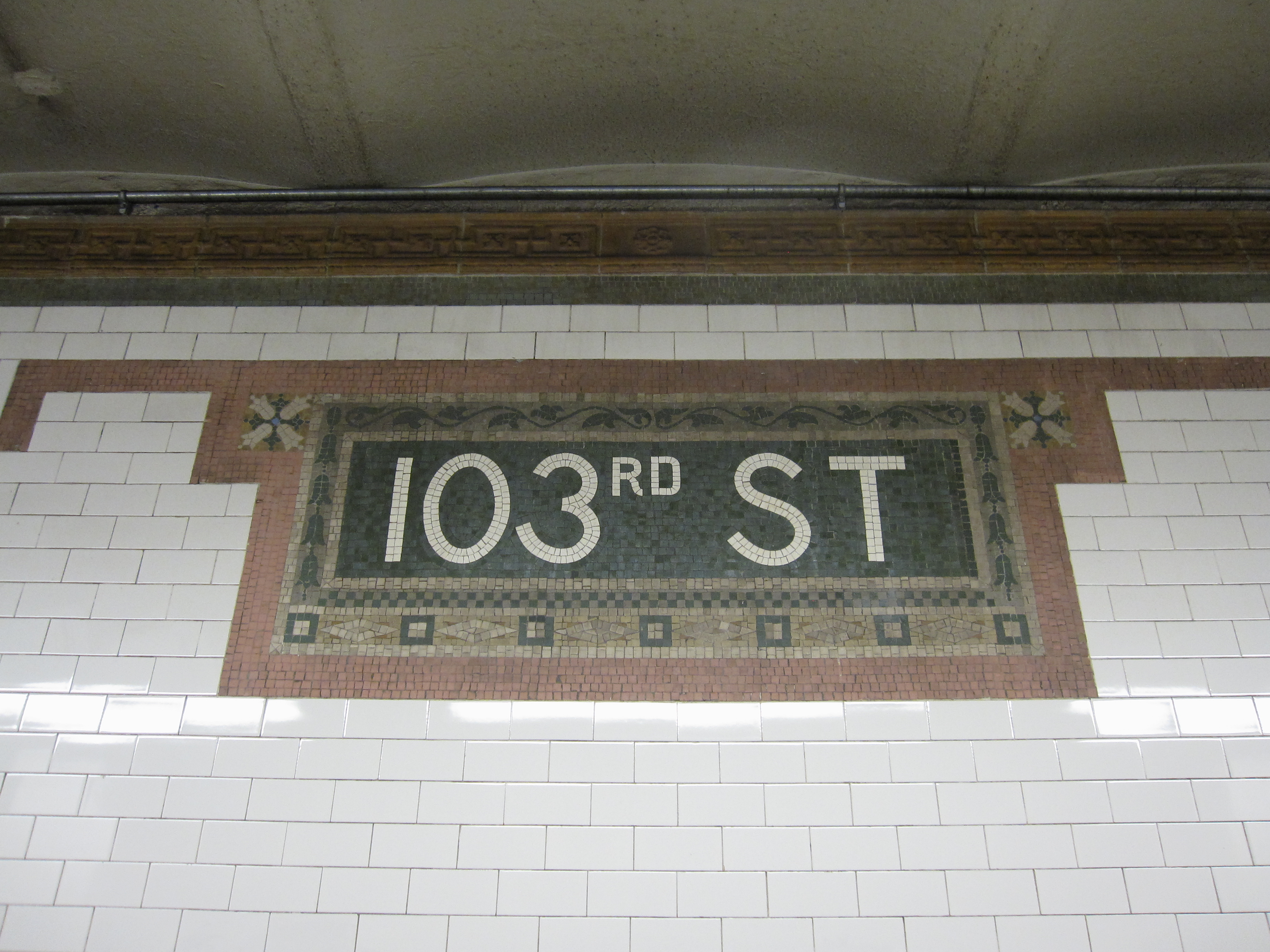 103rd Street (IRT Broadway – Seventh Avenue Line)